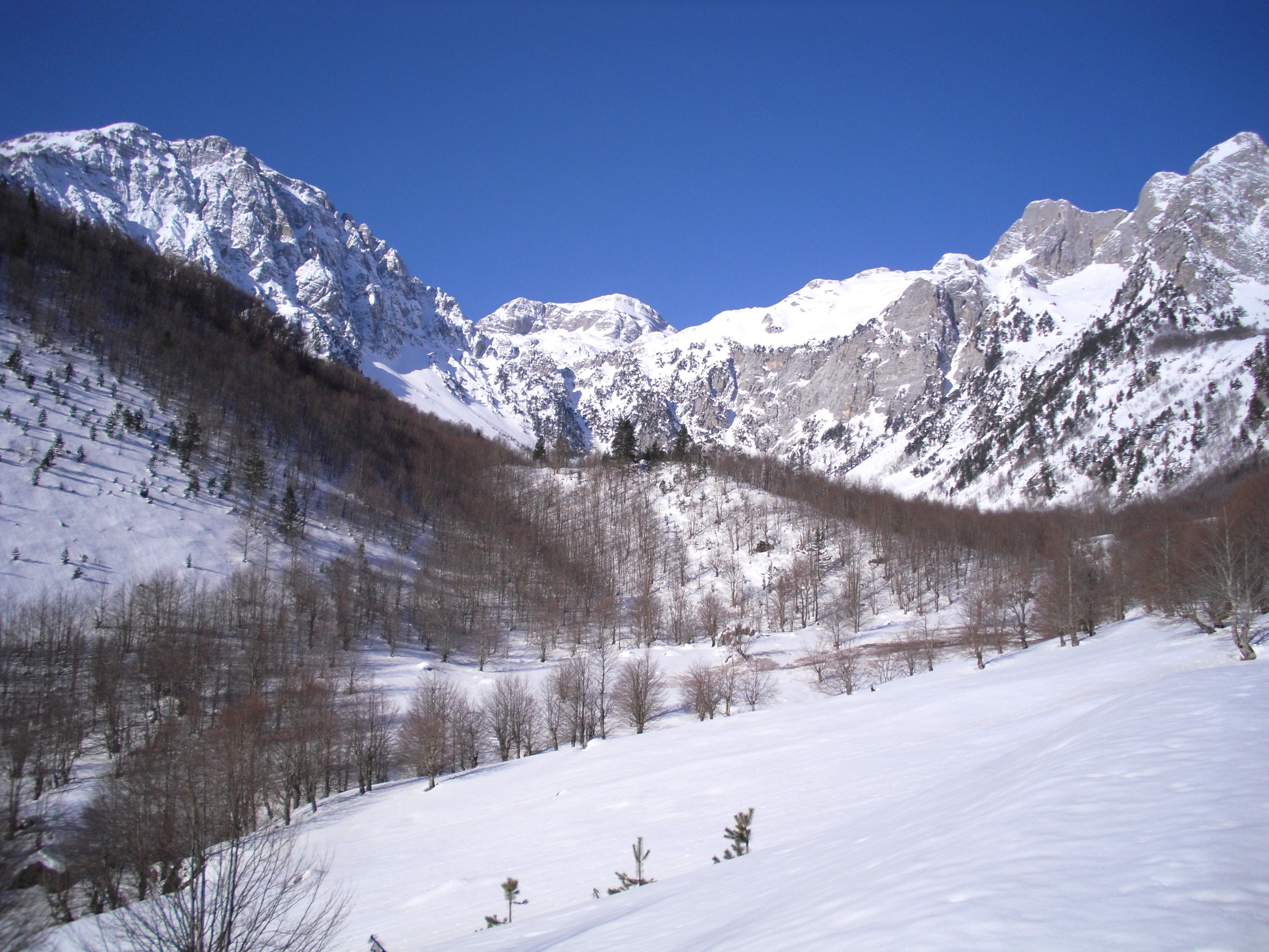 Southern view of the hanging glacial valley of Kukaj, a Natural Monument of Albania. Notice the summit of Mt. Jezercë (2694) in the central horizon.